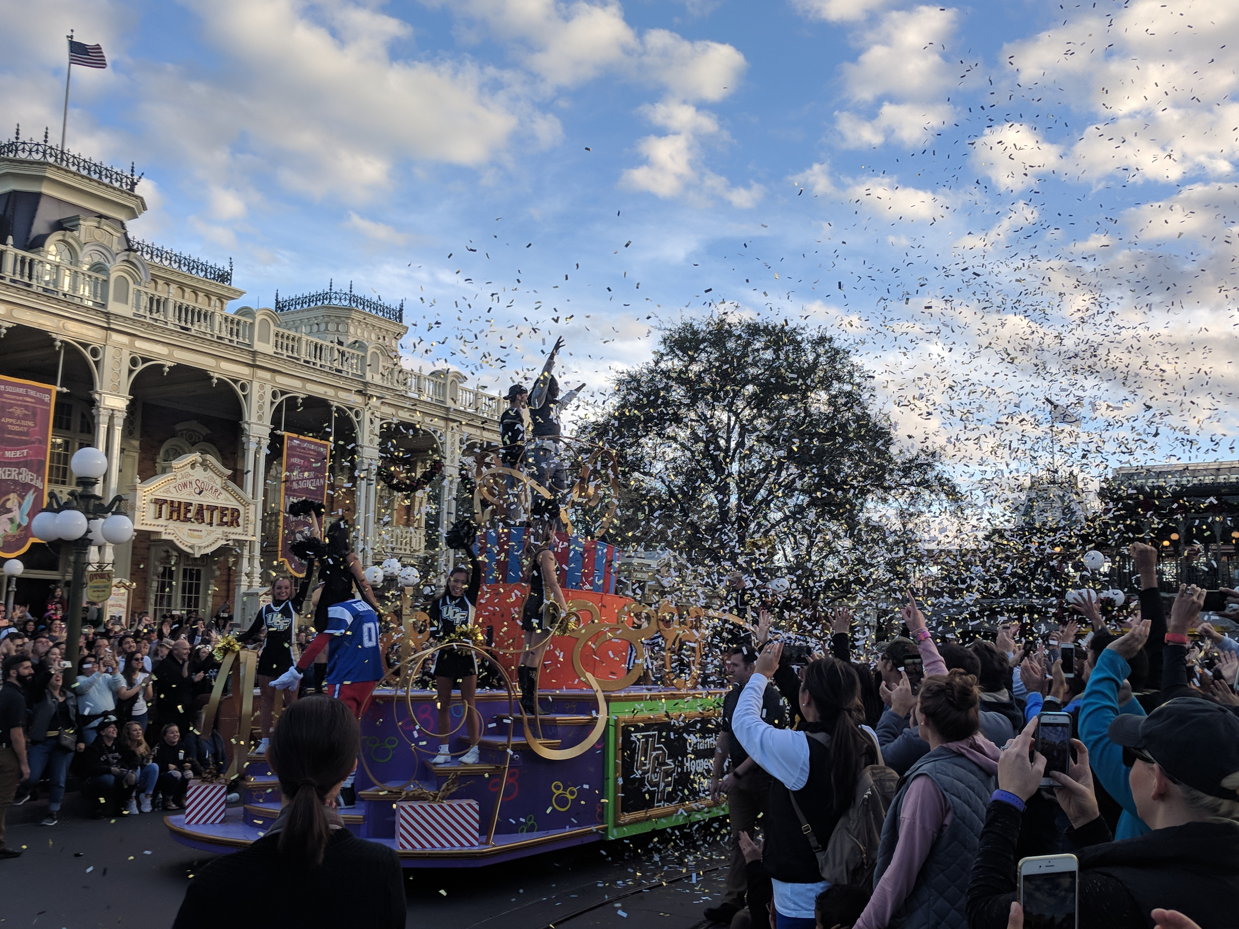 Shaquem Griffin and McKenzie Milton on the parade float